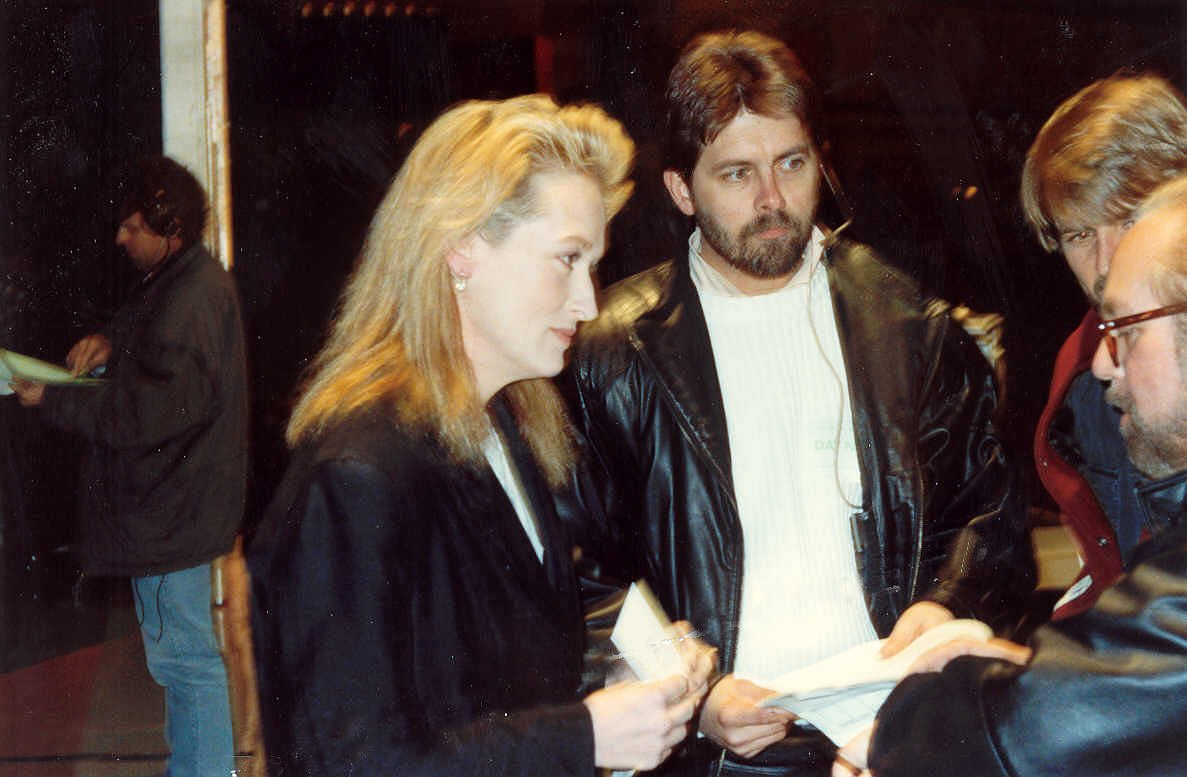 Meryl Streep at Grammy rehearsal 2/20/90